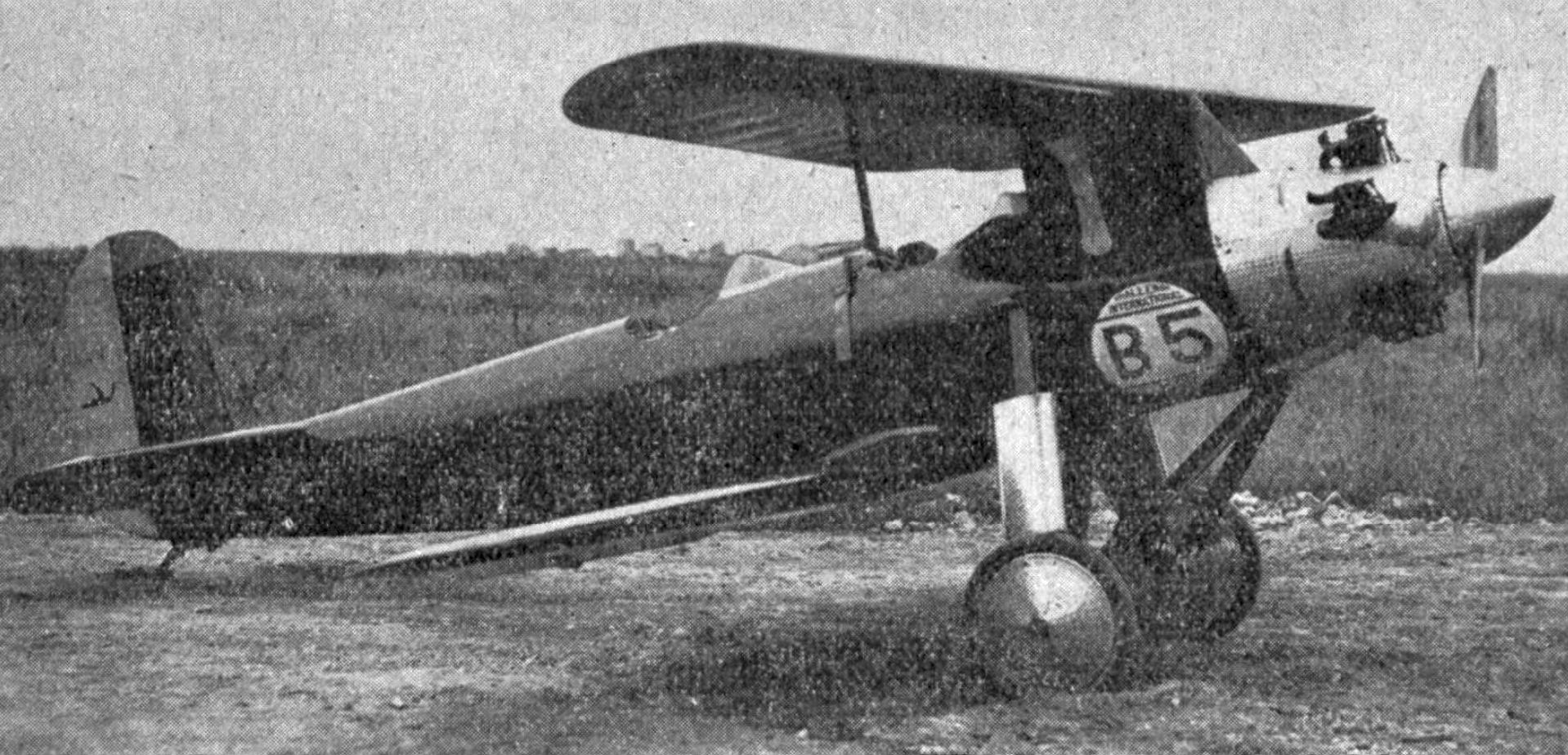 Darmstadt D-18 photo from L'Aérophile August,1929